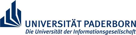 University of Paderborn Logo